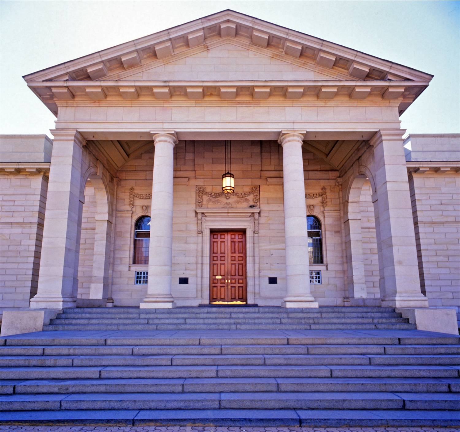 This media shows a South African Protected Site with SAHRA file reference 9/2/228/0069.